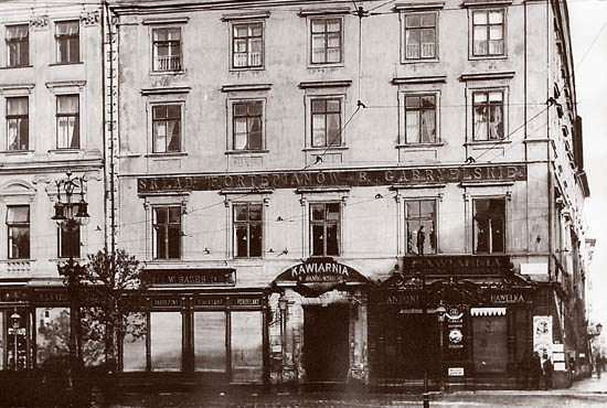 The shop of Antoni Hawelka on Krakow's Rynek, present location of the Historical Museum of the City